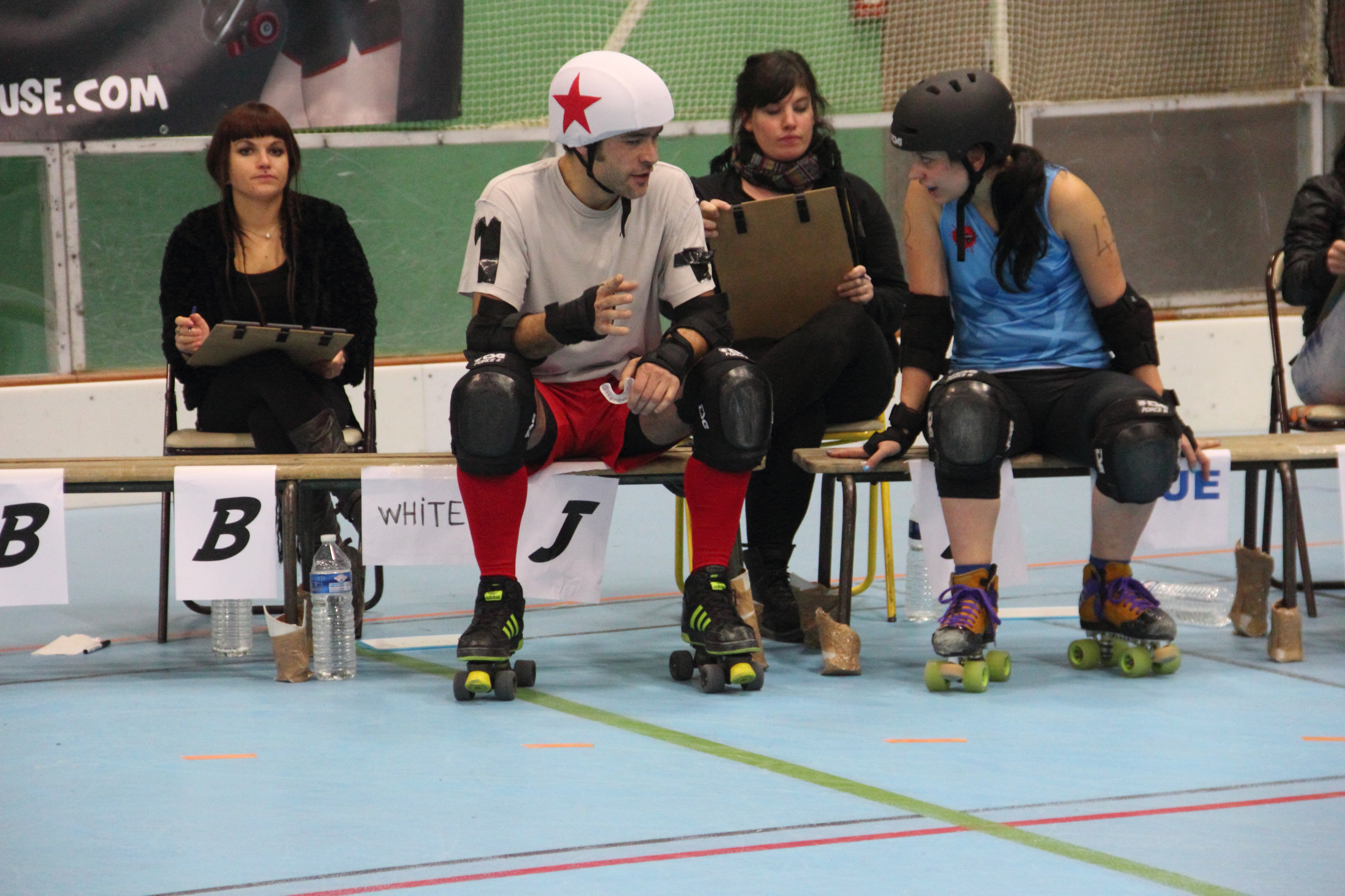 Roller Derby Toulouse — 9 December 2012, La Ramée, Tournefeuille. Match between: Nothing Toulouse — Quad Guards